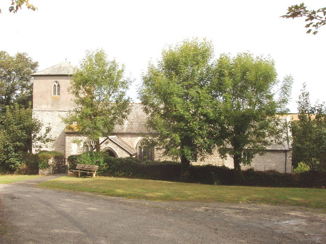 St Ervan church. 13th/14th century church. The tower used to be twice as high, but was reduced in the 1880s. See website of the St Mawgan united benefice. The church is mentioned in John Betjeman's blank verse autobiography "Summoned by Bells"